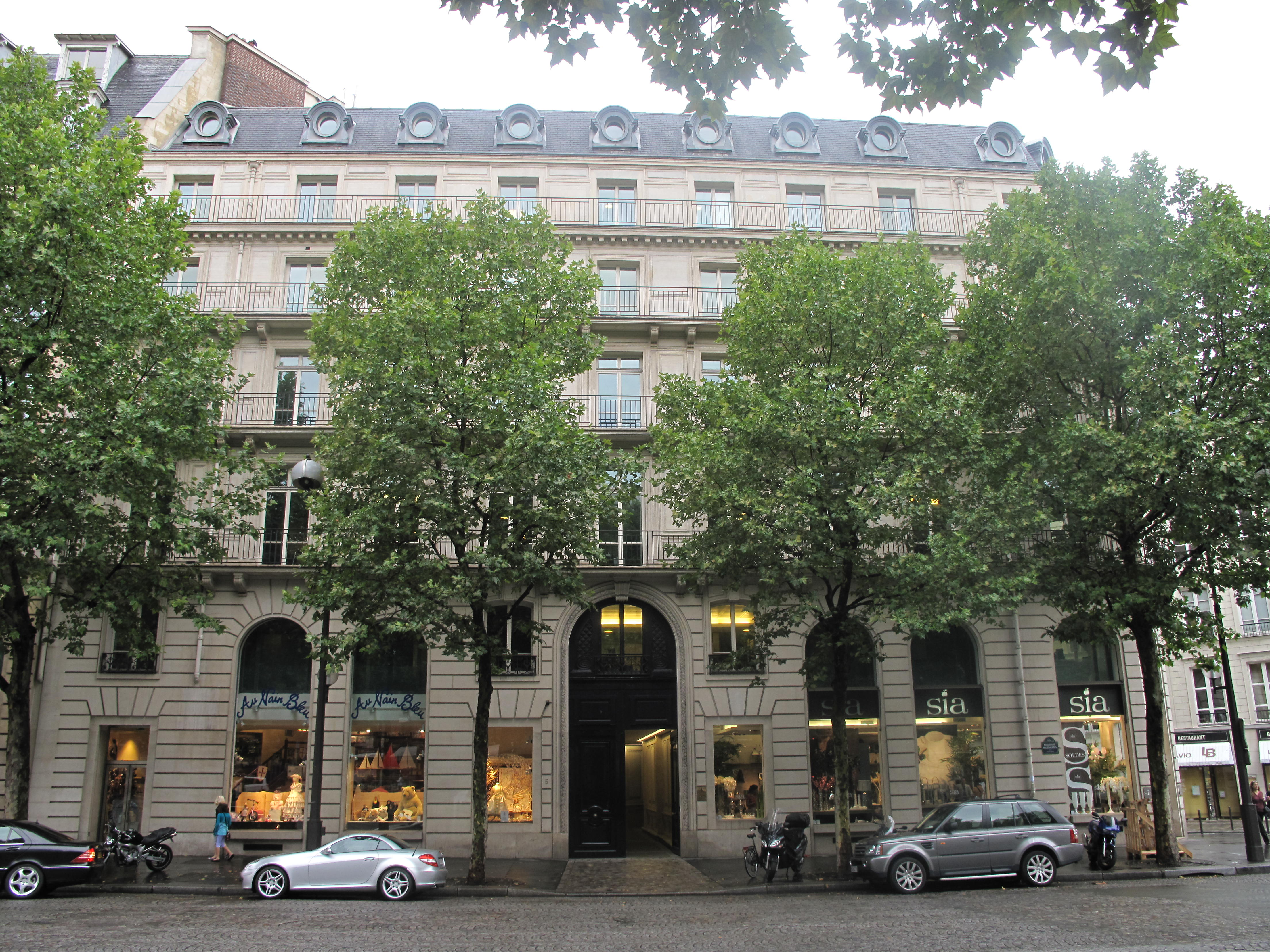 Building 5 boulevard Malesherbes, former HQ of the French company Unibail and former HQ of Union Aéromaritime de Transport, Paris 8th arr.